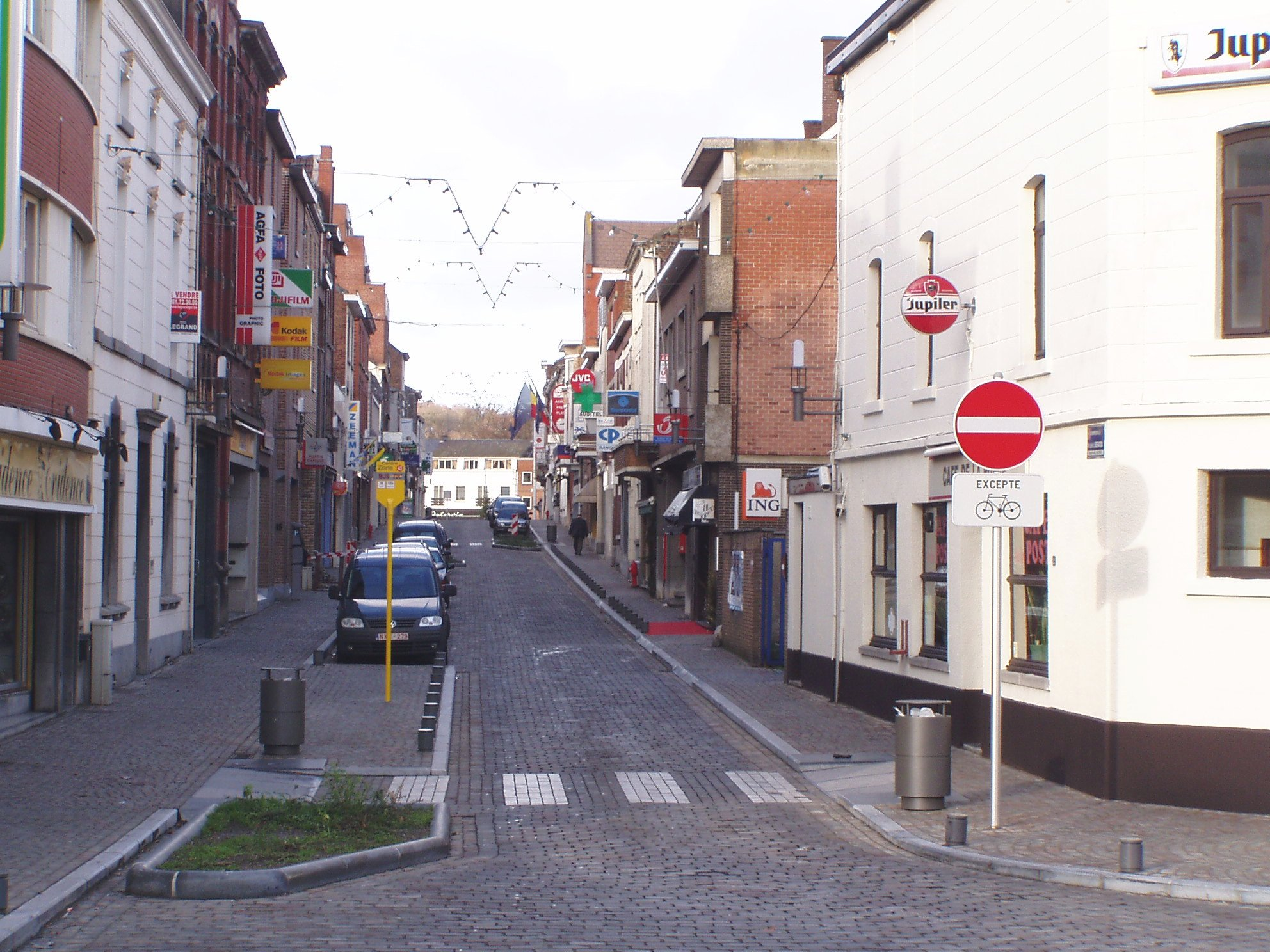 Liberation avenue, Auvelais (Sambreville)